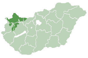 Map showing the territory of the Little Hungarian Plain within Hungary. From Huwiki, created by User:Fgg.